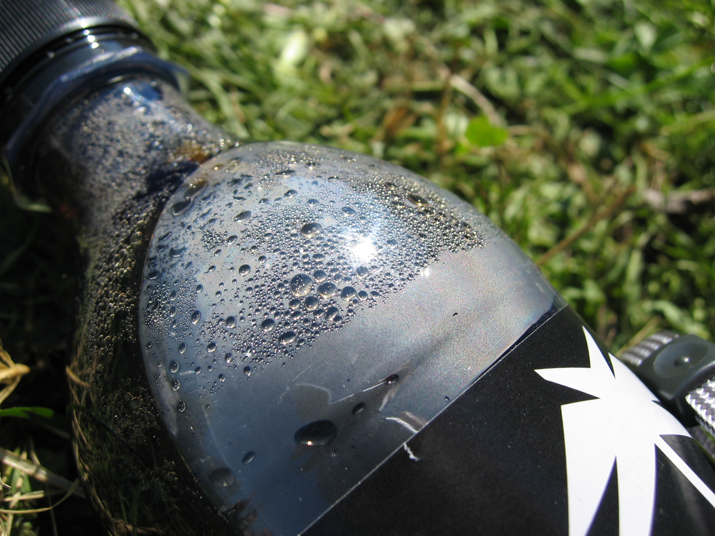 shot by fakie taken on 27.07.04